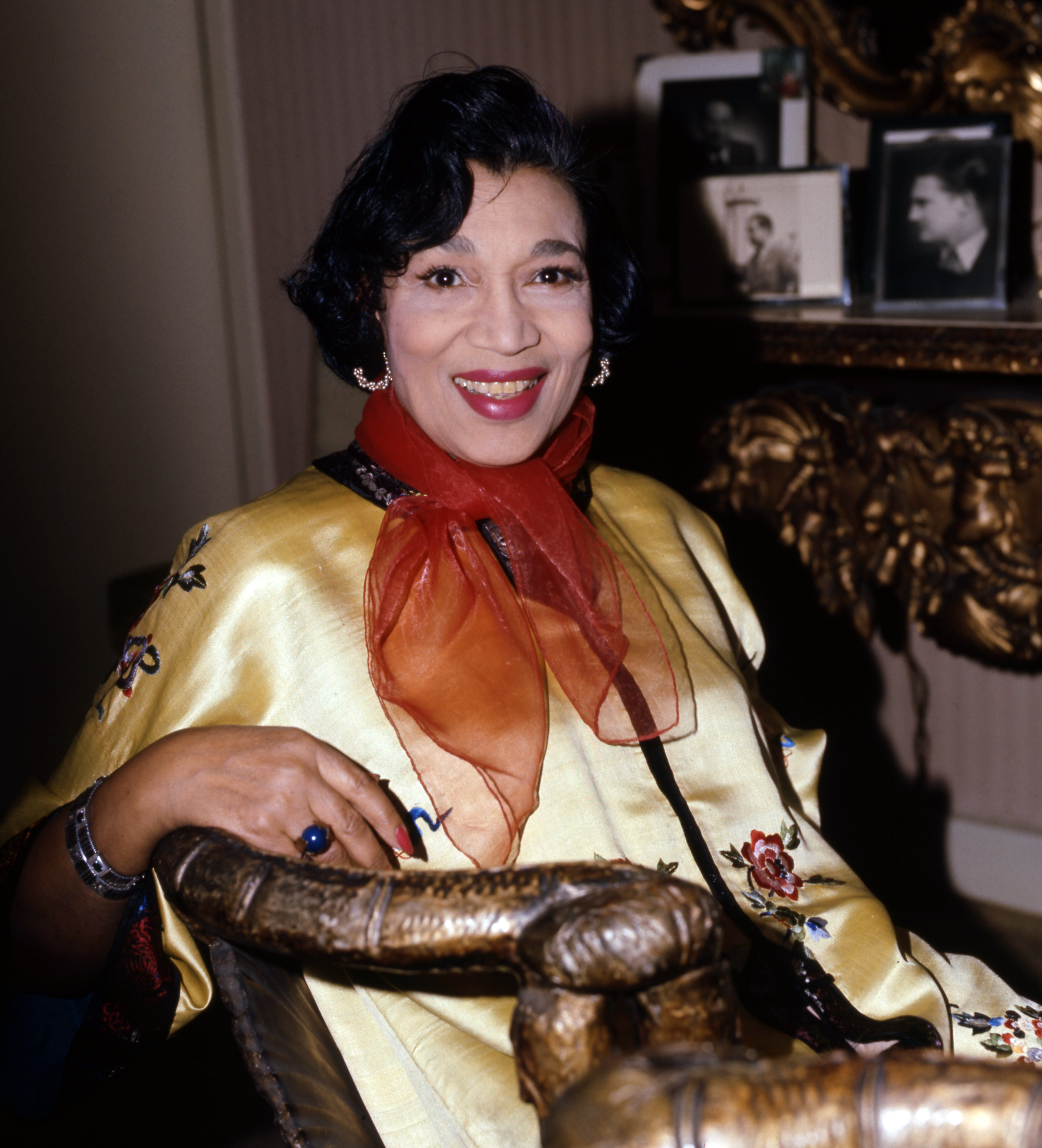 Elizabeth Welch